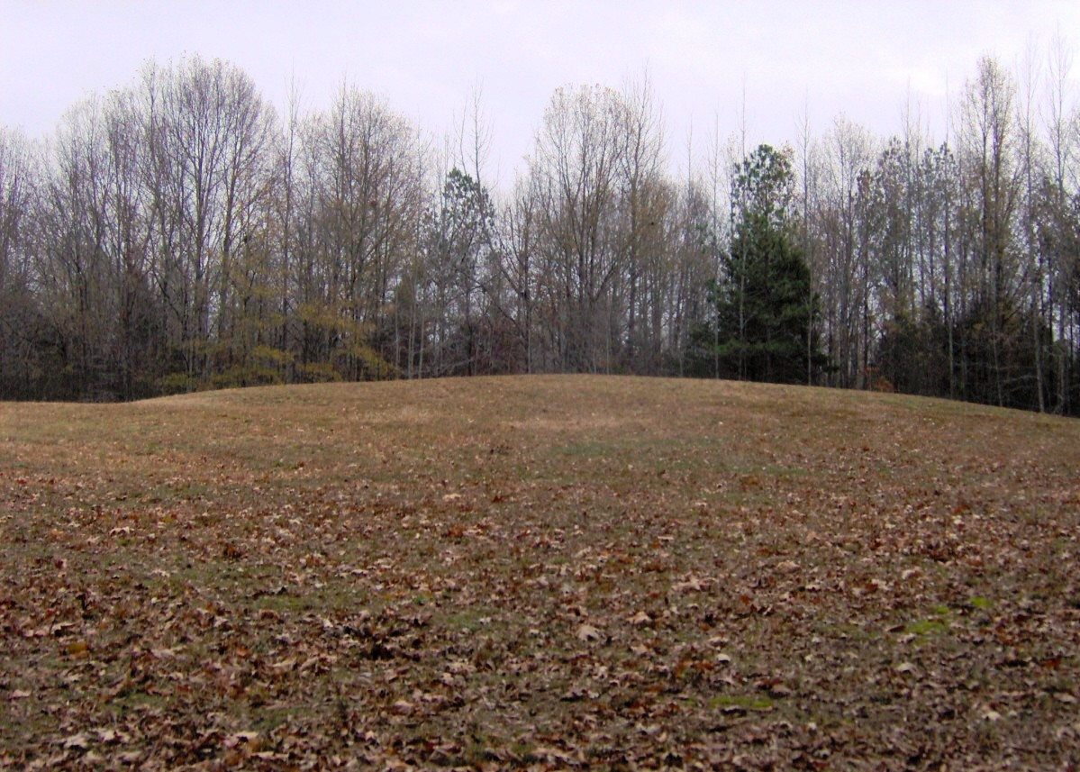 Mound 12 at Pinson Mounds State Archaeological Park in Madison County, Tennessee, located in the Southeastern United States. In the 1970s, archaeologist John Broster excavated this mound and uncovered a clay pit used for human cremation. He also discovered evidence of Early Woodland period occupation.